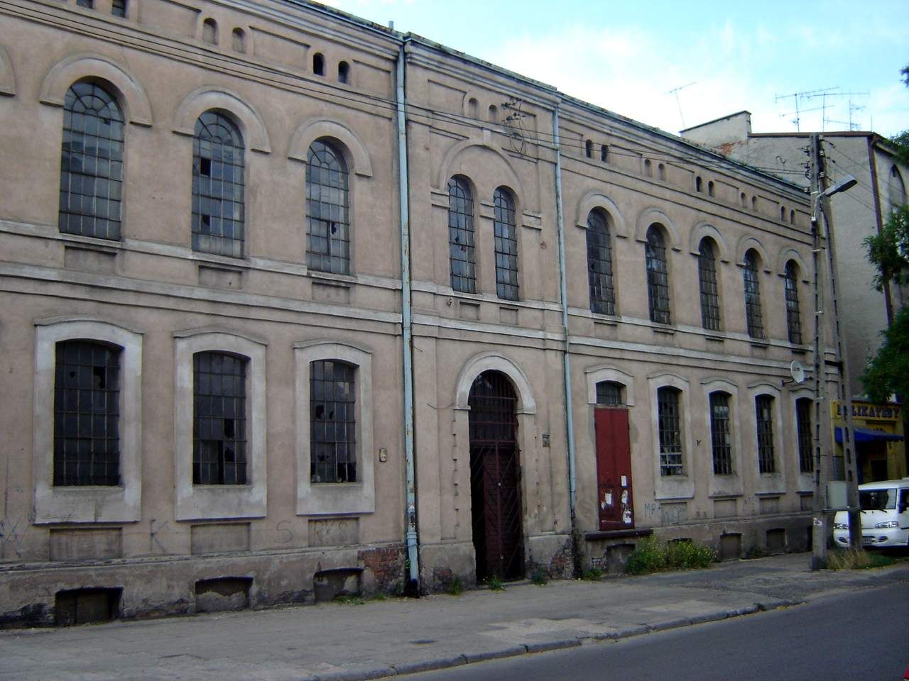 Jewish bathhouse in Częstochowa.